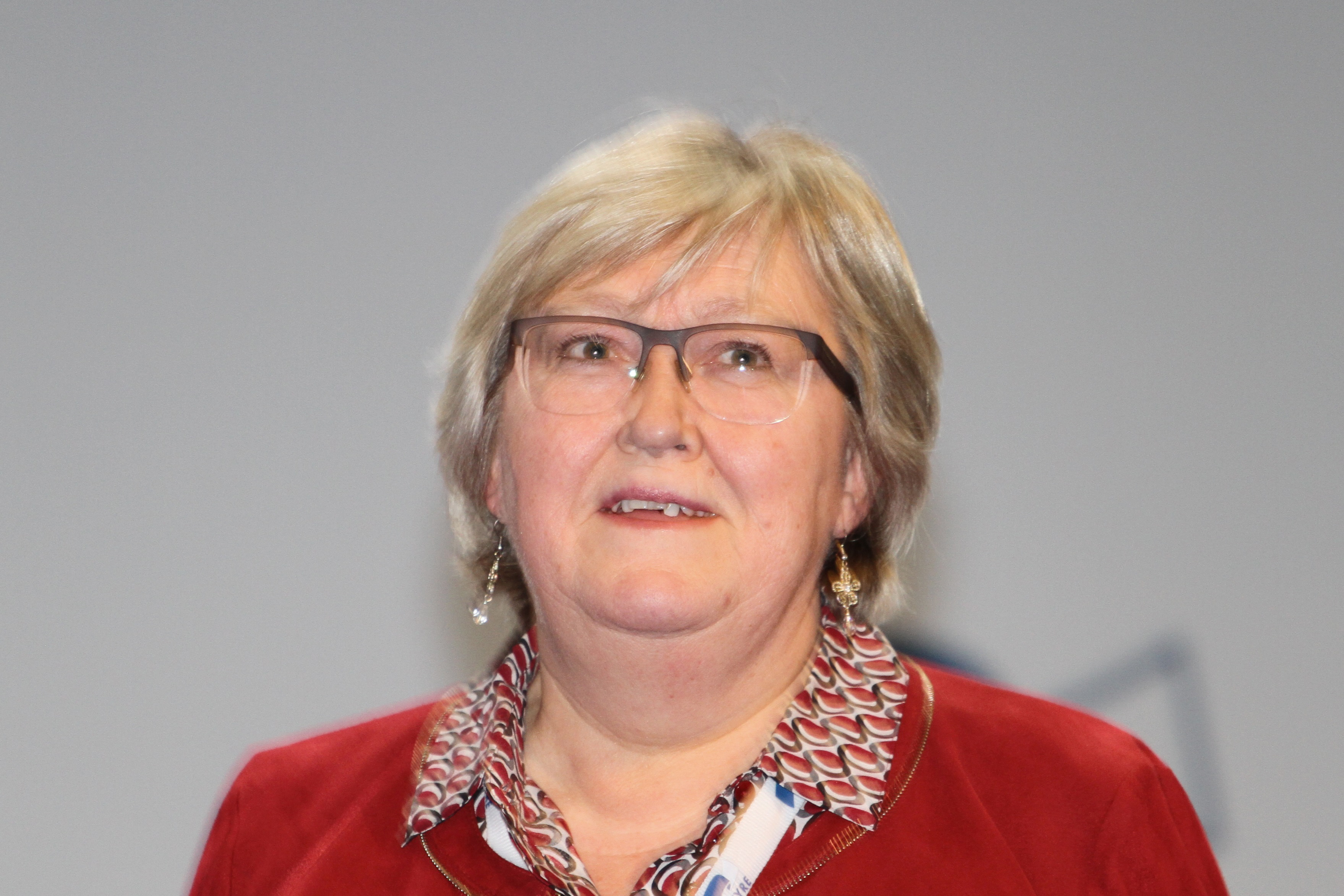 Elisabeth Aspaker